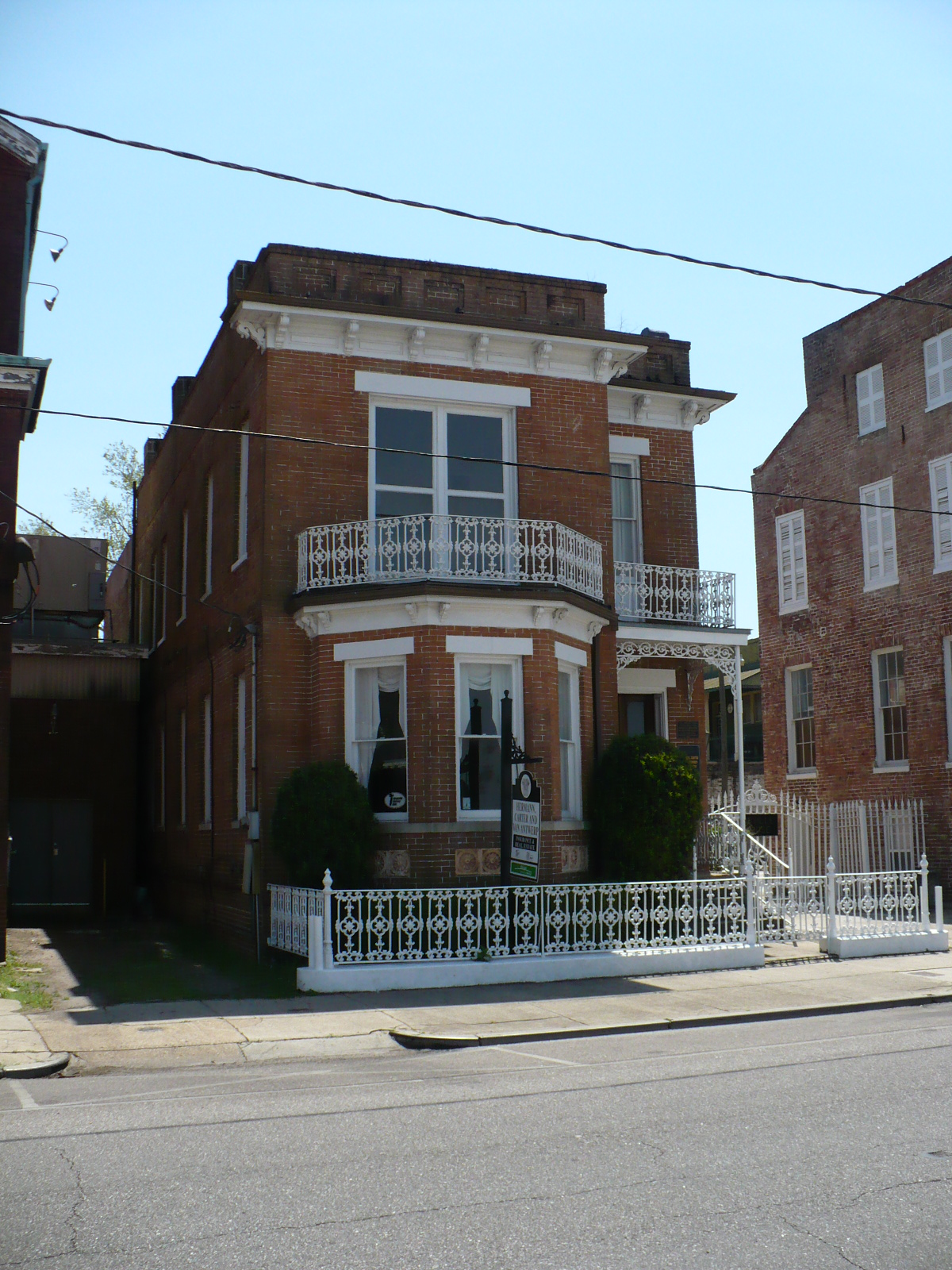 255 Saint Francis Street (Neville House) within the Lower Dauphin Street Historic District in Mobile, Alabama. (c. 1890).